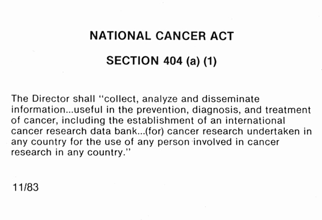 This is an image of an excerpt of the text section 404(a)(1) of the US National Cancer Act of 1971. It reads: The Director shall "collect, analyze and disseminate information...useful in the prevention, diagnosis, and treatment of cancer, including the establishment of an international cancer research data bank...(for) cancer research undertaken in any country for the use of any person involved in cancer research in any country."